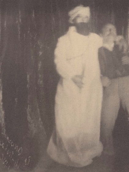 The medium William Eglinton with Abdullah from experiments in London in 1880.